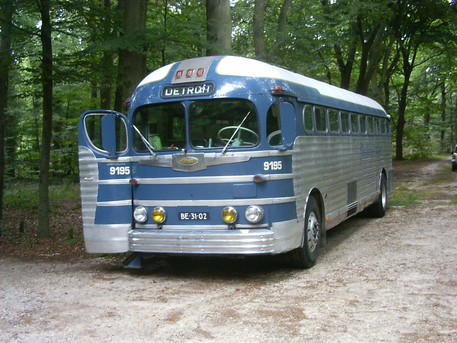 Greyhound GMC PD4151 Silverside bus from 1948, front view, in the 1950s livery, reintroduced on Greyhound coaches in 2009. This bus is owned by Dutch registration BE-31-02, Greyhound serial number 9195.